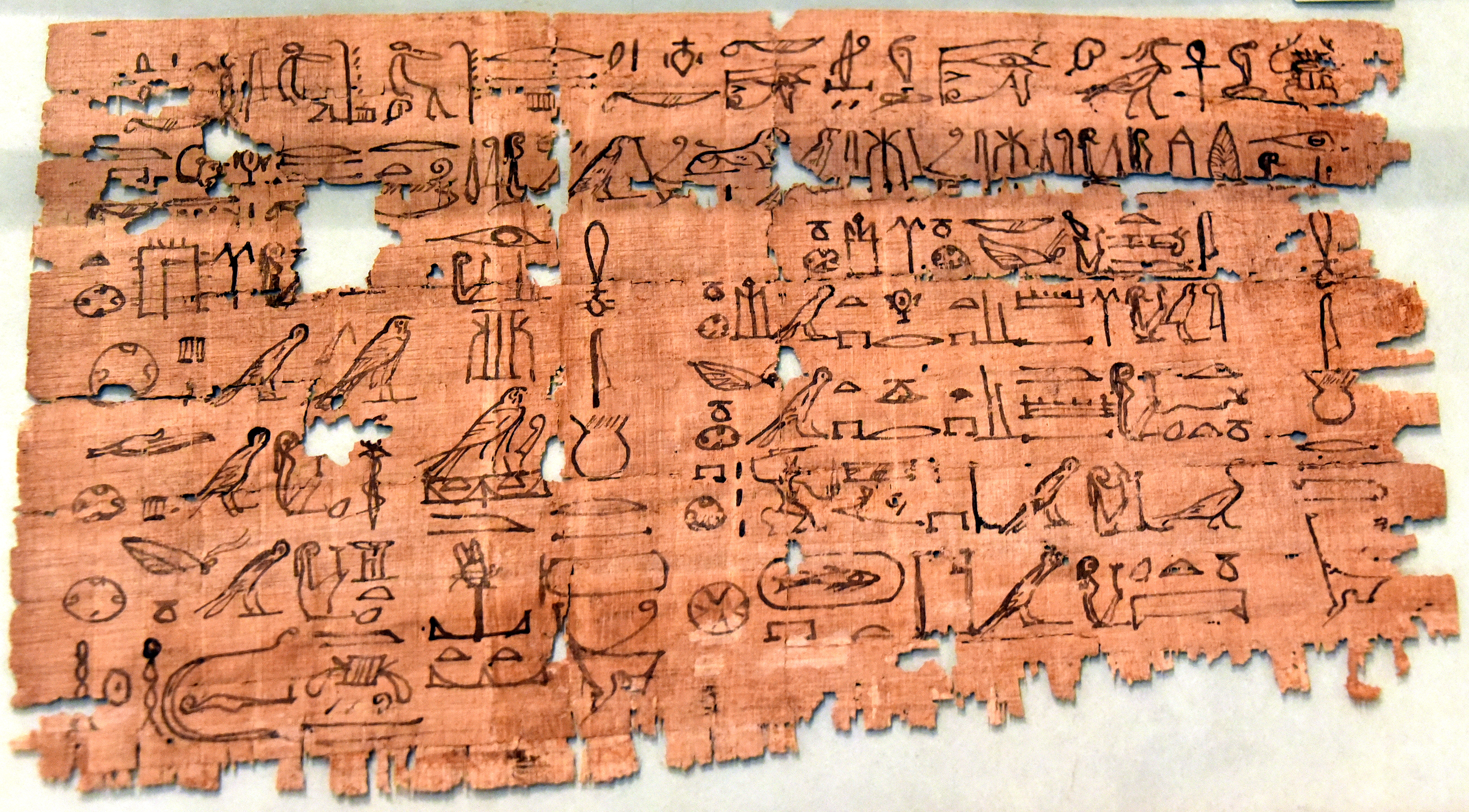 Part of the Book of Breathing, hieratic papyrus. Probably from Thebes, Egypt. Ptolemaic period, 323-30 BCE. Neues Museum, Berlin, Germany.